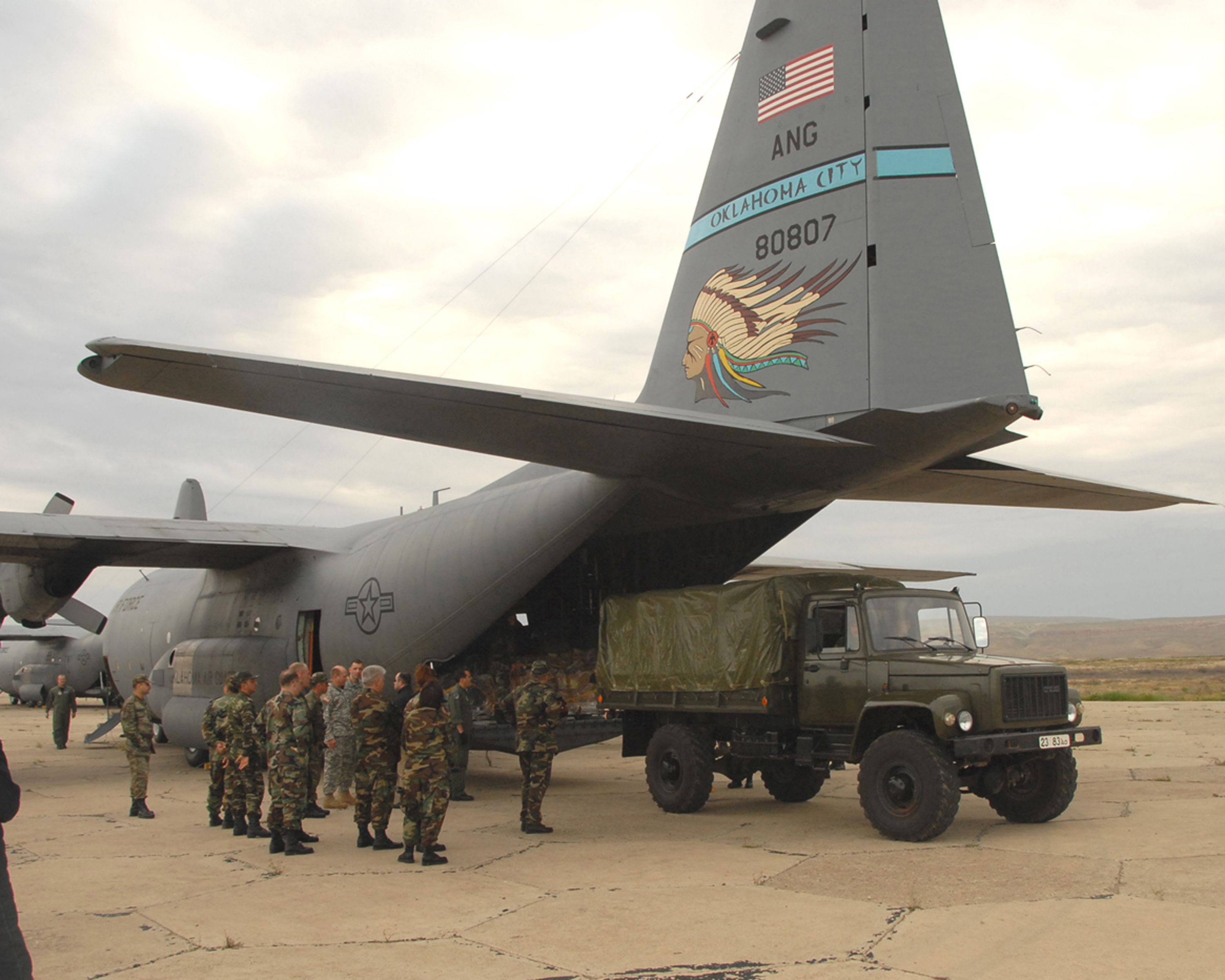 U.S. Airmen assigned to the 137th Medical Group (MDG), Oklahoma Air National Guard, unload supplies from a C-130 Hercules aircraft onto a Russian truck in Azerbaijan, May 14, 2007. Airmen with the 137th MDG performed a humanitarian mission for displaced Azerbaijani refugees..